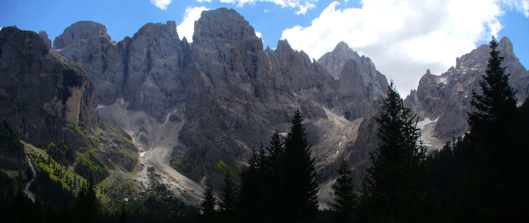 Pale di San Martino, view from Val Venegia from left to right: C. di Val Grande (middle), Cima della Vezzana (background) and Cimon della Pala (behind tree)